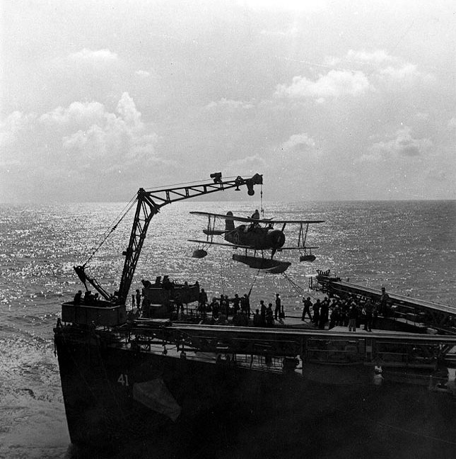 Curtiss SOC "Seagull" scout-observation aircraft is hoisted on board USS Philadelphia (CL-41), during the North African operation, November 1942. Note crewmen holding lines to steady the plane as the aircraft crane swings it inboard.